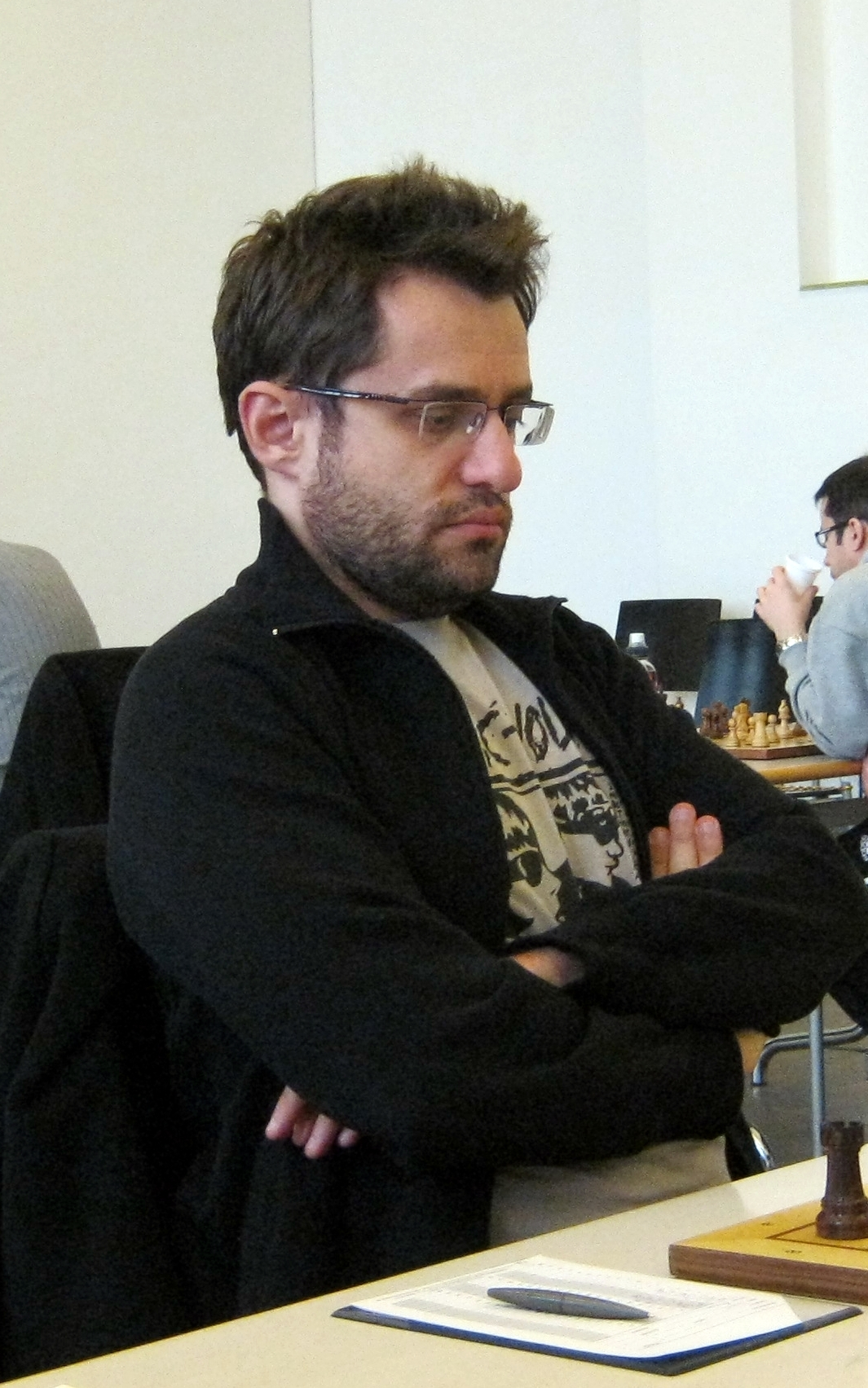 Levon Aronian, chess grandmaster from Armenia